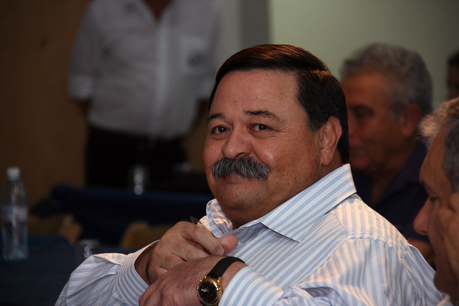 MK Eli Aflalo, Kadima Party (Israel). Photo by: Itzik Edri, Kadima Party PR Team